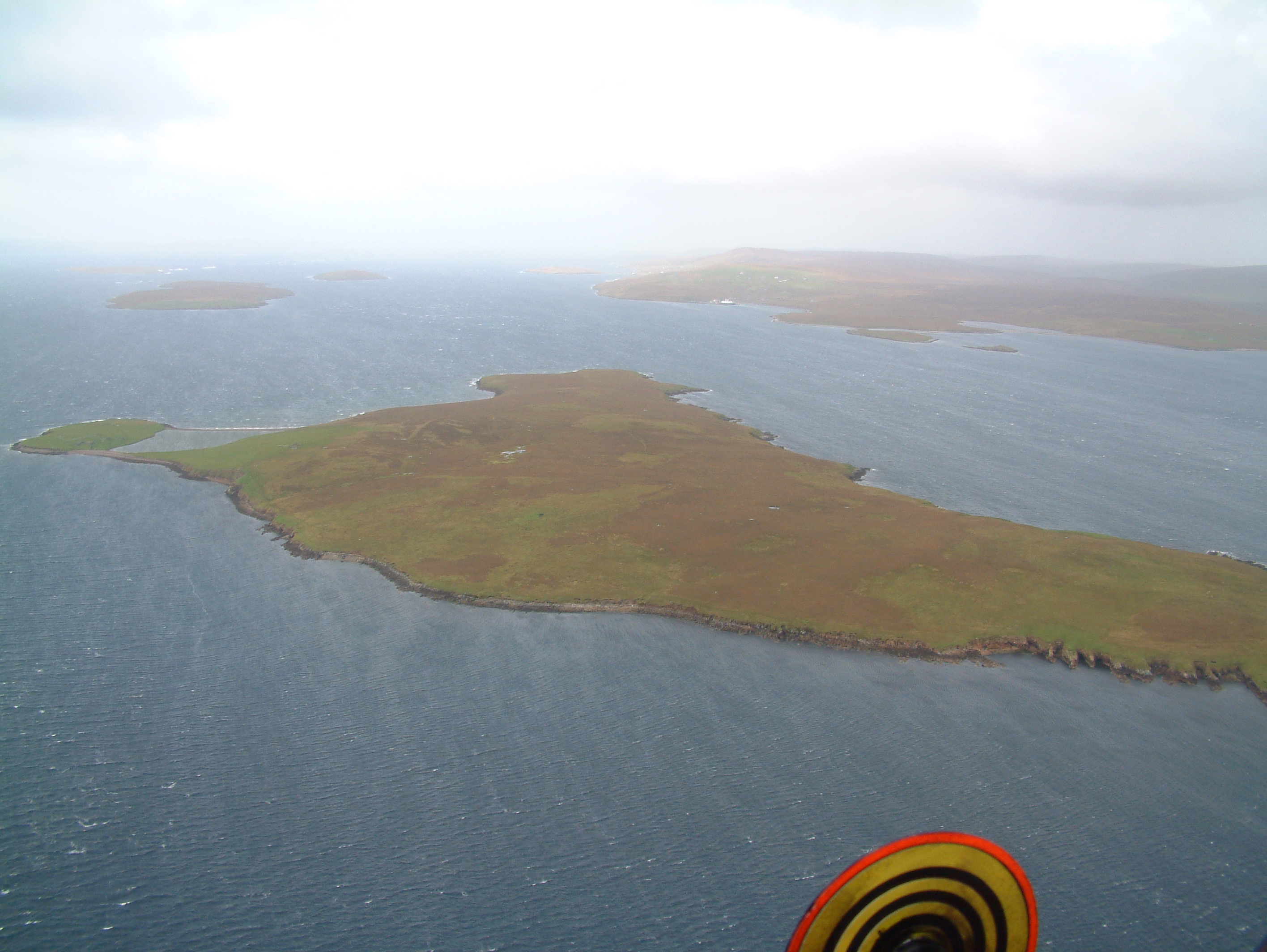 Samphrey from the air, looking east down Yell Sound.